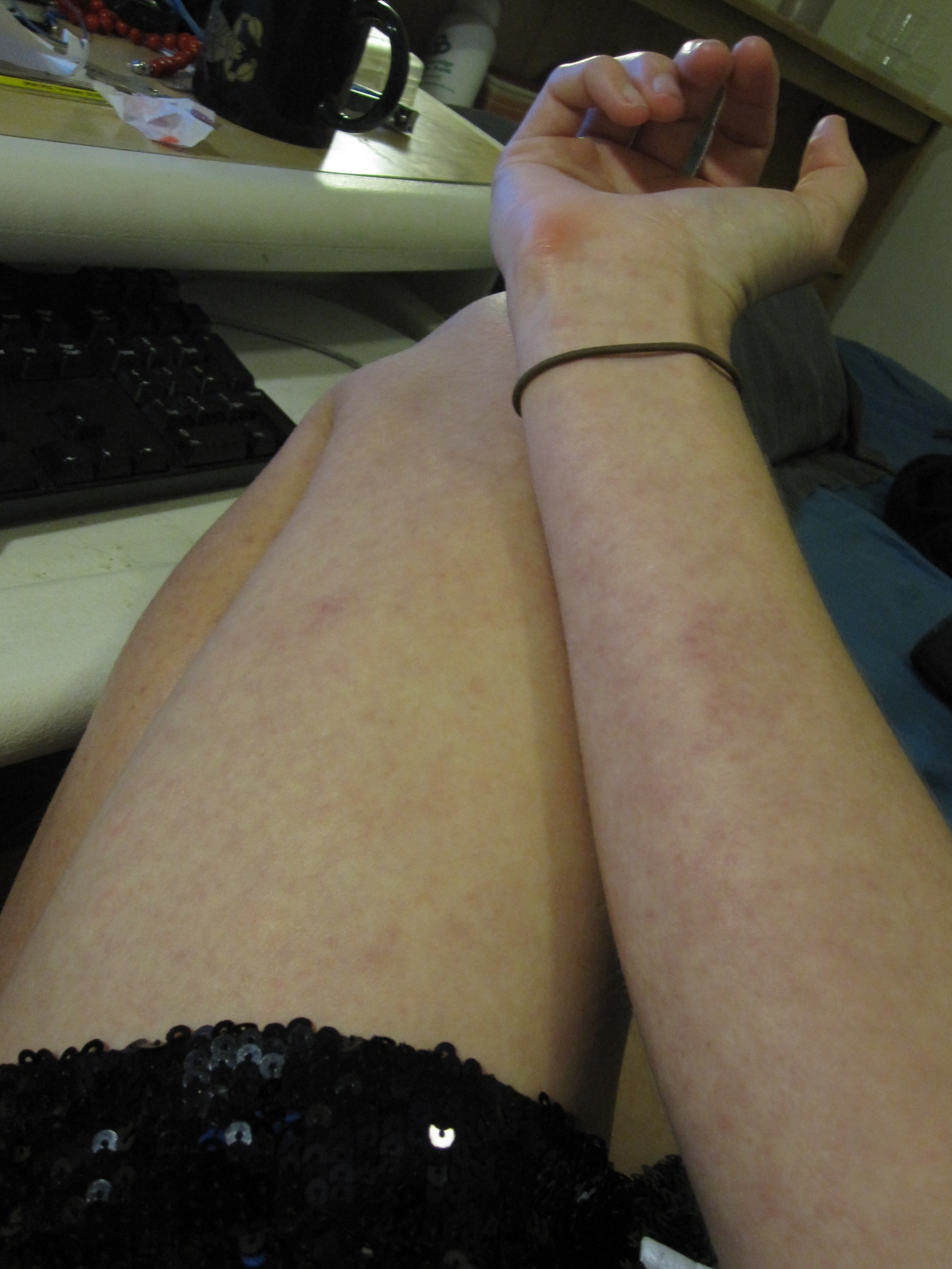 Rash from dengue fever I got in India. Diagnosis was confirmed by later IgG ELISA testing.